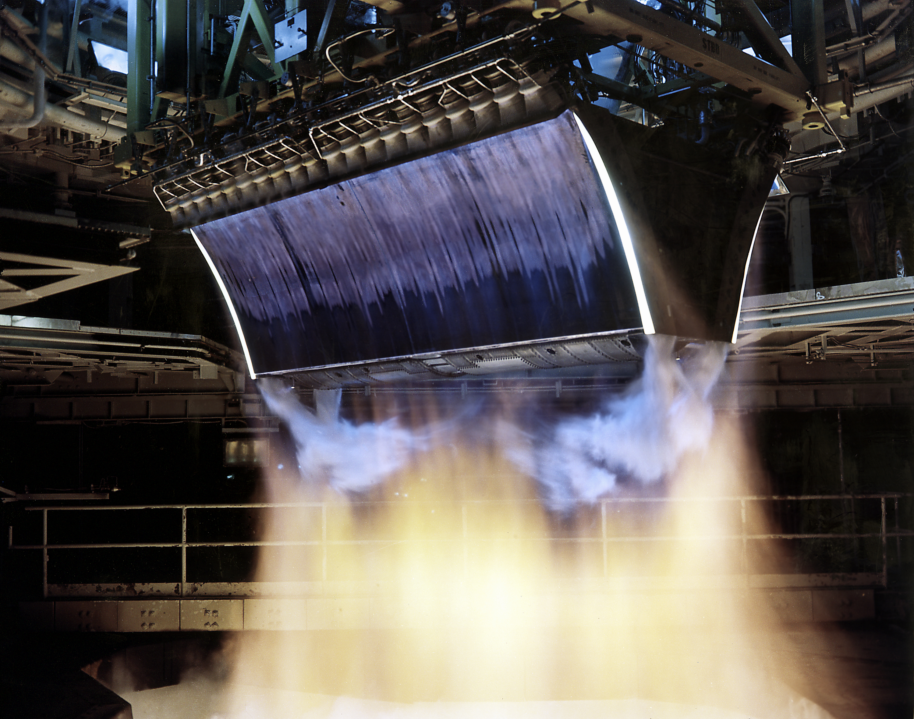 The test of twin Linear Aerospike XRS-2200 engines, originally built for the X-33 program, was performed on August 6, 2001 at NASA's Stennis Space Center, Mississippi. The engines were fired for the planned 90 seconds and reached a planned maximum power of 85 percent. NASA's Second Generation Reusable Launch Vehicle Program , also known as the Space Launch Initiative (SLI), is making advances in propulsion technology with this third and final successful engine hot fire, designed to test electro-mechanical actuators. Information learned from this hot fire test series about new electro-mechanical actuator technology, which controls the flow of propellants in rocket engines, could provide key advancements for the propulsion systems for future spacecraft. The Second Generation Reusable Launch Vehicle Program, led by NASA's Marshall Space Flight Center in Huntsville, Alabama, is a technology development program designed to increase safety and reliability while reducing costs for space travel. The X-33 program was cancelled in March 2001.